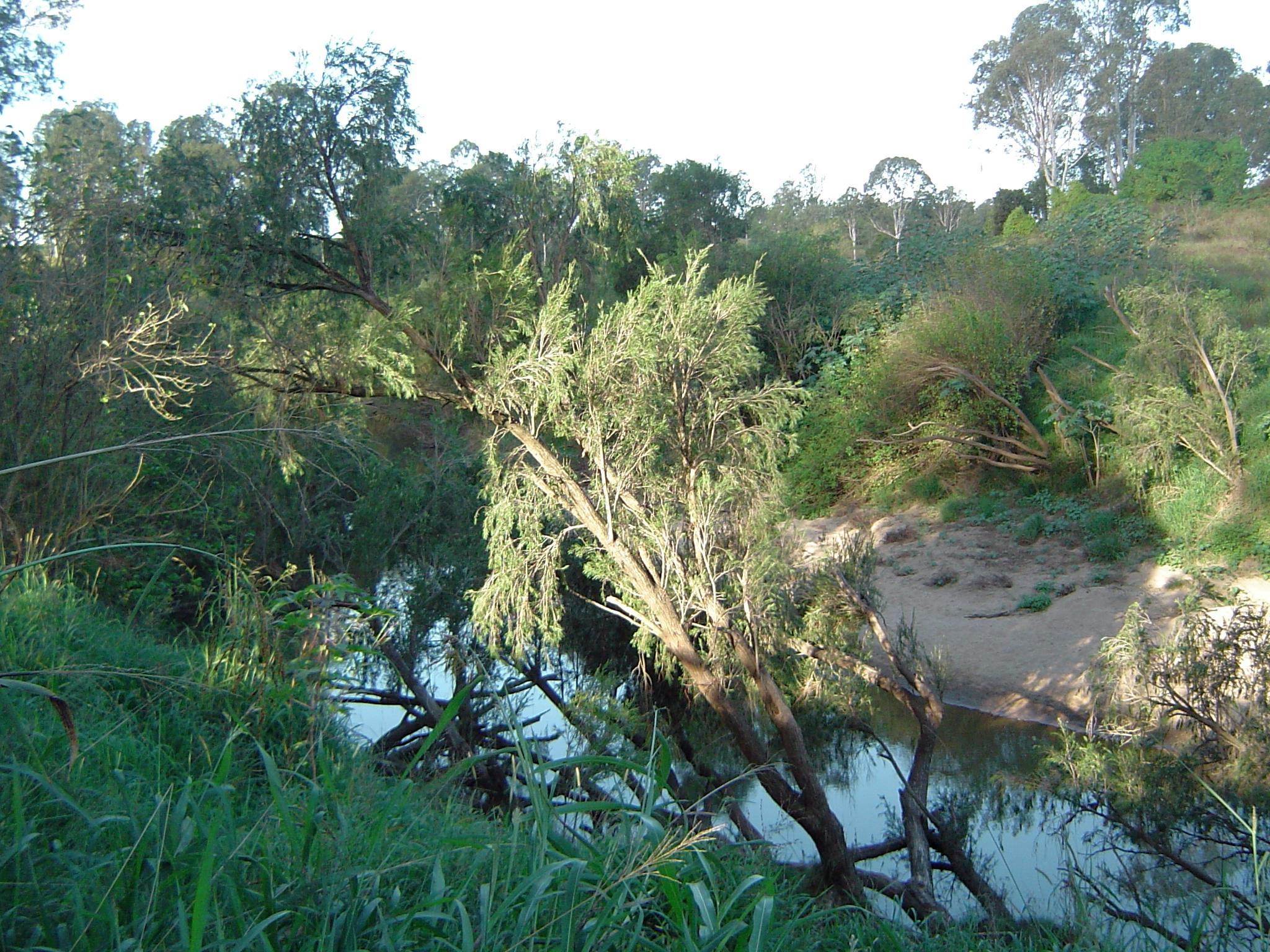 Photo of Logan River from Gieseman Park at Munruben, Logan City, Queensland, Australia.